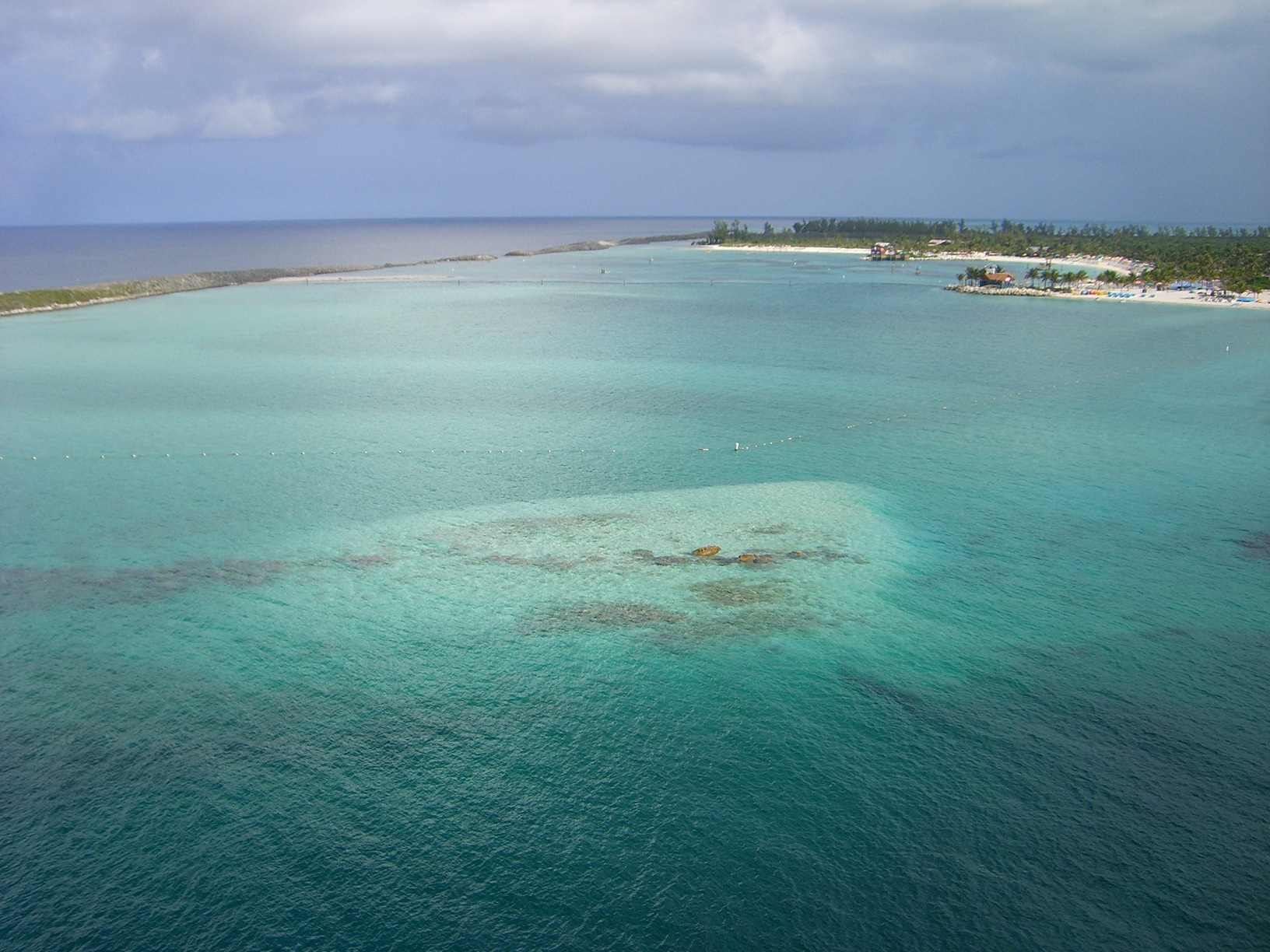 Distant view of the Castaway Cay lagoon